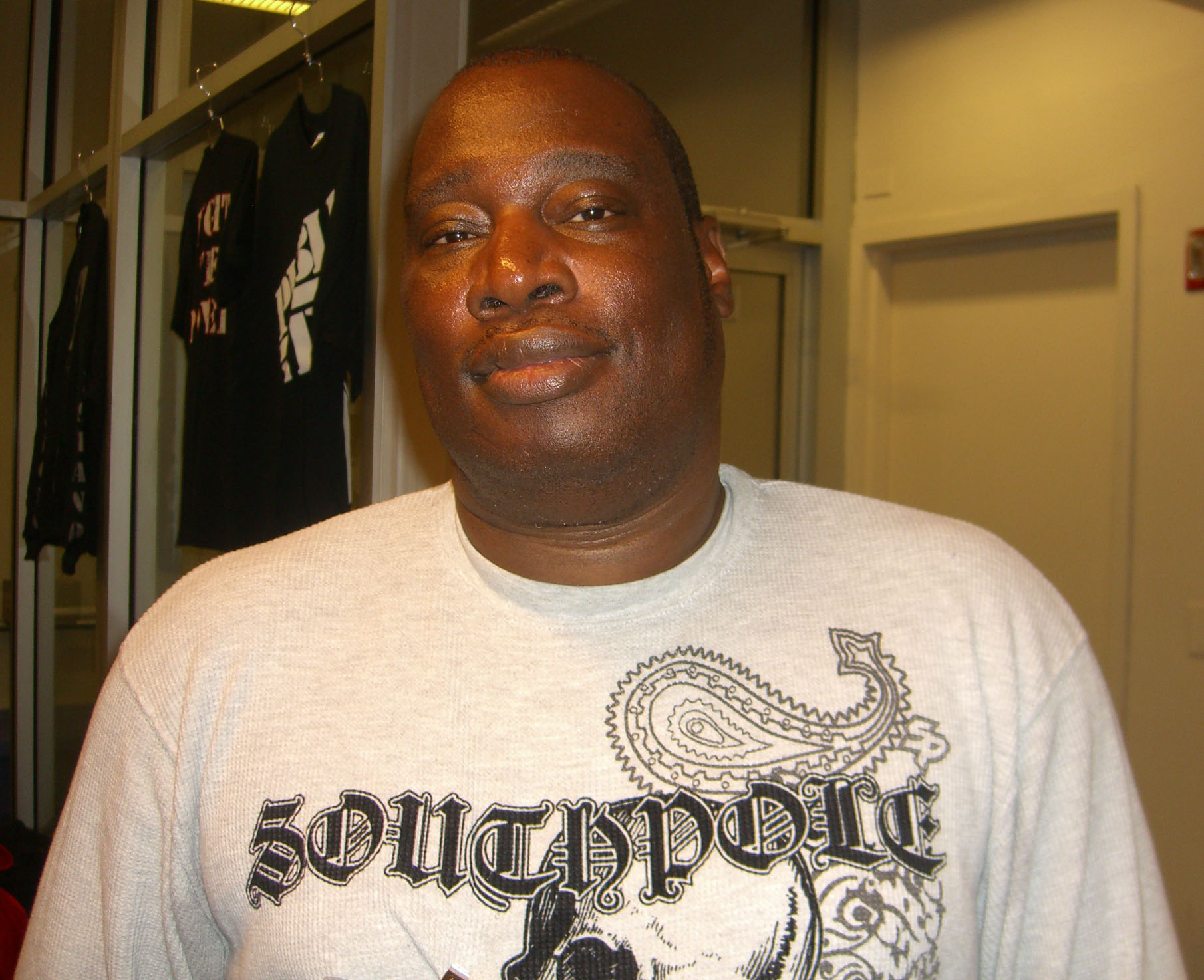 Comic book creator Ron Wilson at the November 2008 Big Apple Convention in Manhattan. This photo was created by Luigi Novi. It is not in the public domain, and use of this file outside of the licensing terms is a copyright violation.